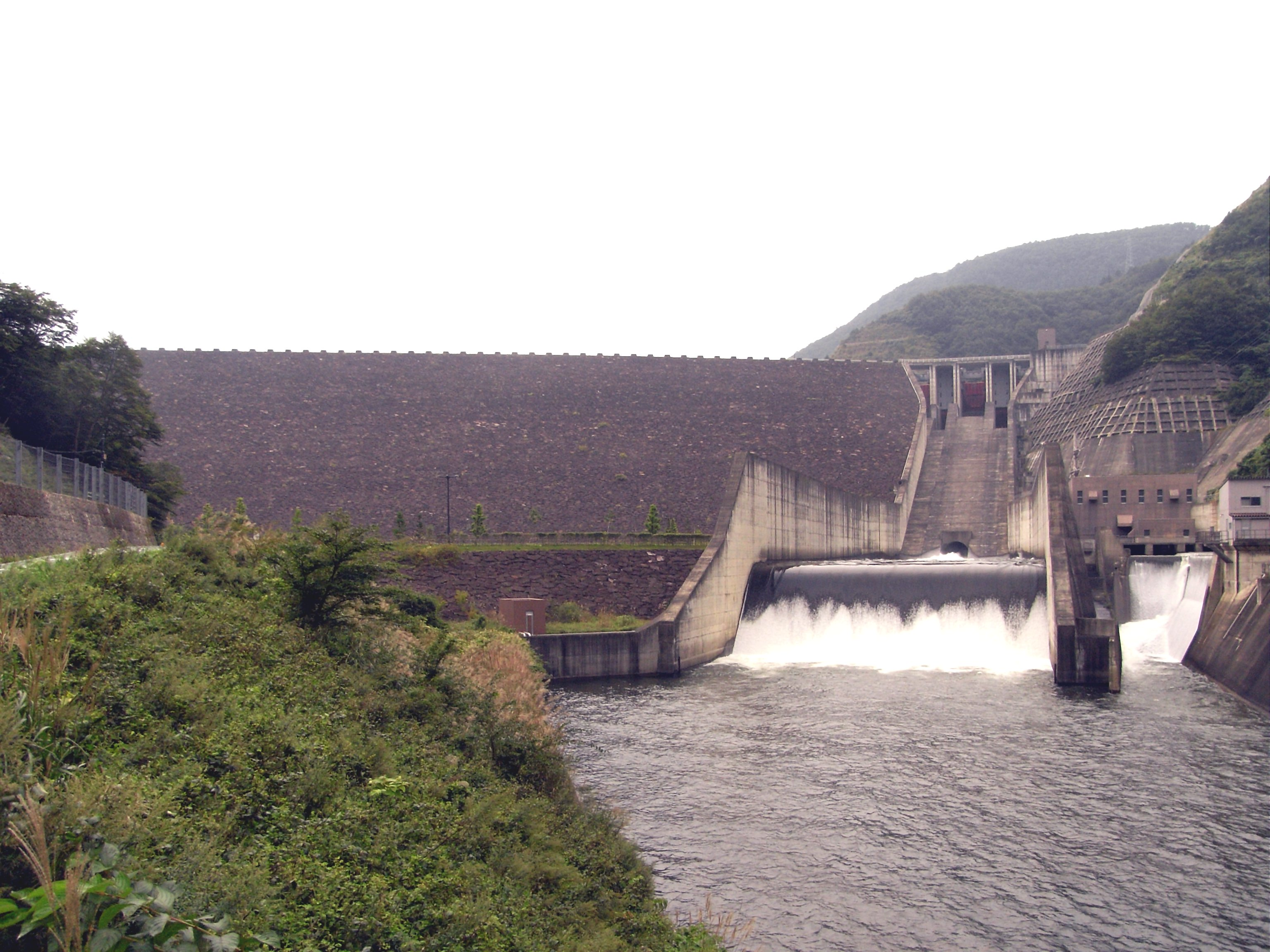 Shichigashuku Dam(Shiroishigawa river/Miyagi Pref./Japan)